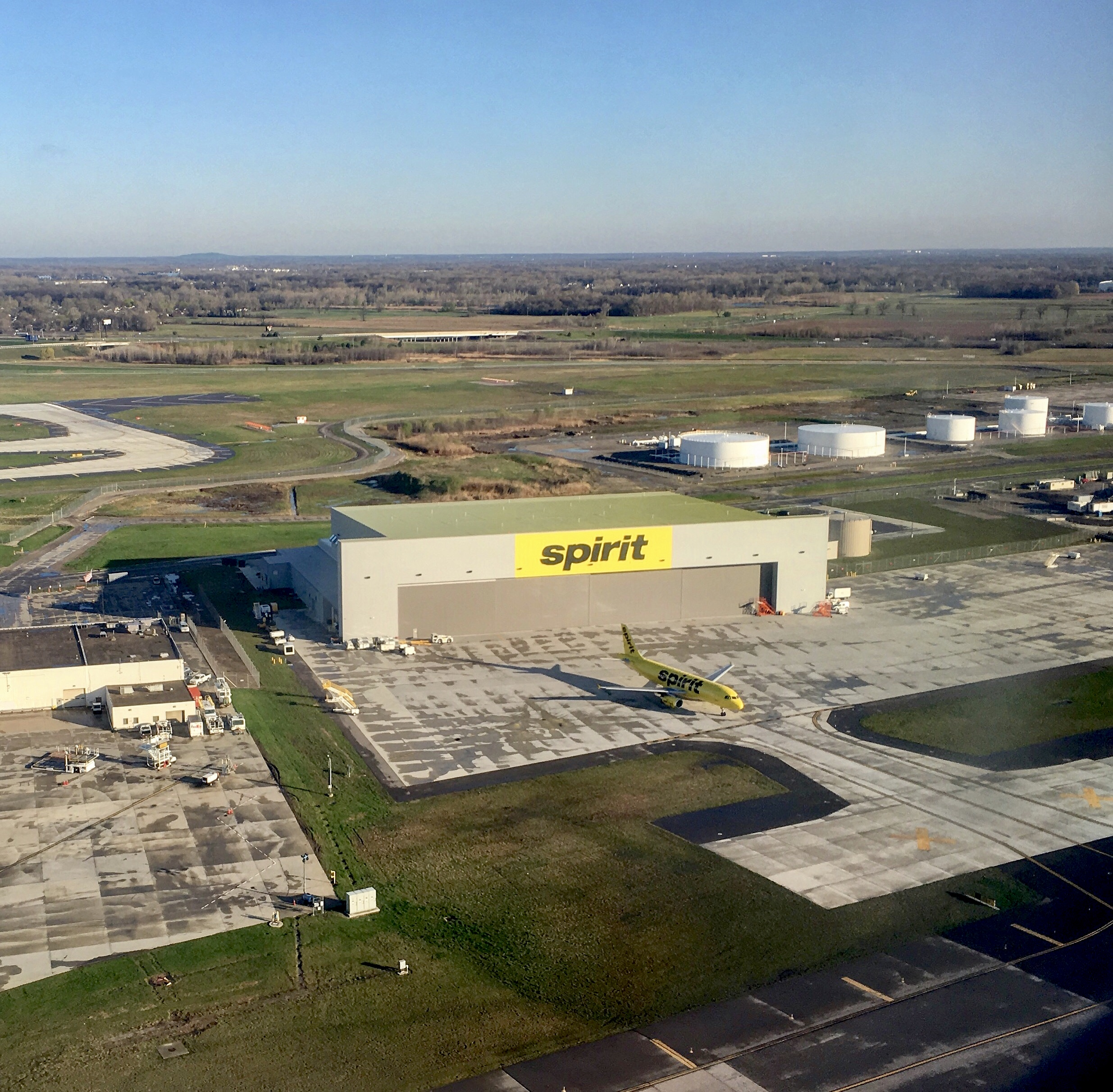 Cop: Spirit’s DTW Maintenance Hangar as seen while departing runway 4R.